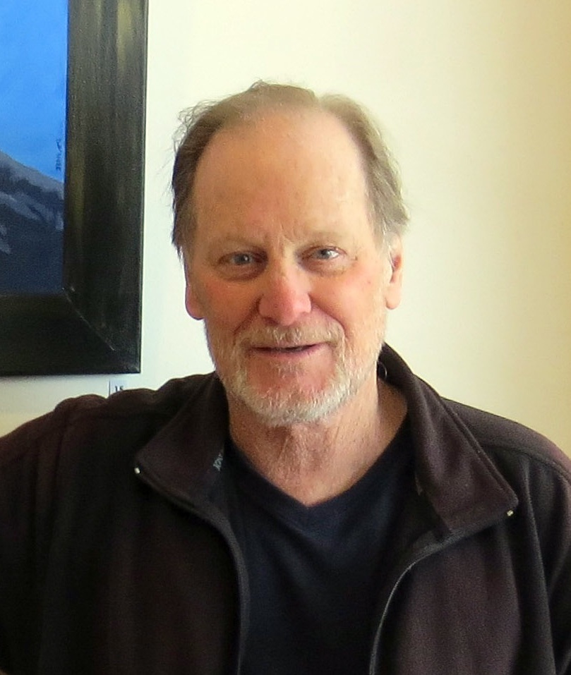 New Zealand poet Peter Olds, photographed in Dunedin, October 2014